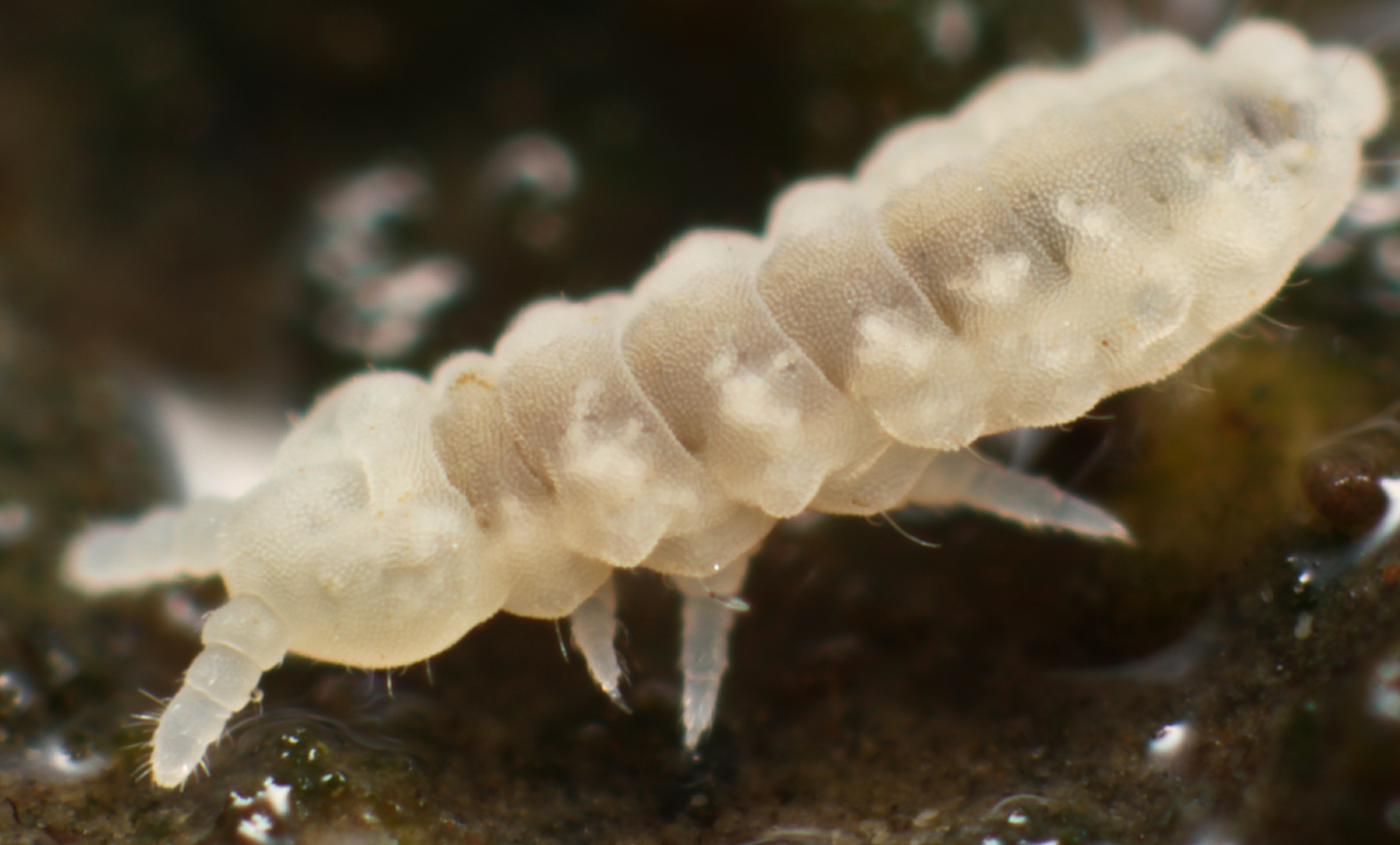 Anurida granaria from East Lydford, England, United Kingdom.